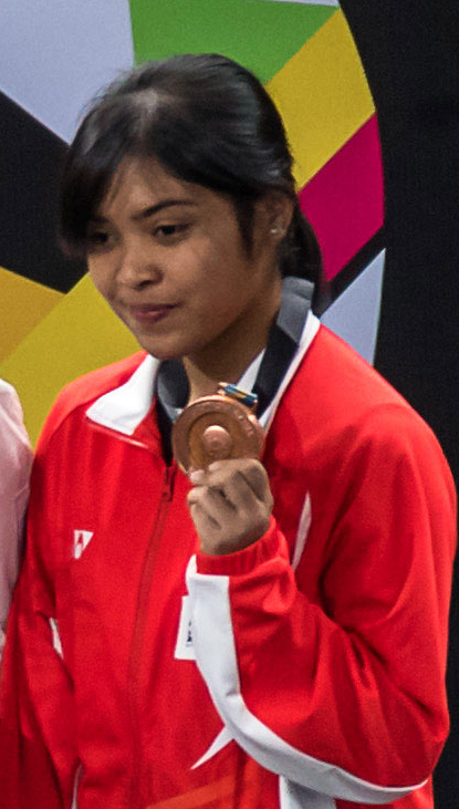 Sea Games Badmintion Final